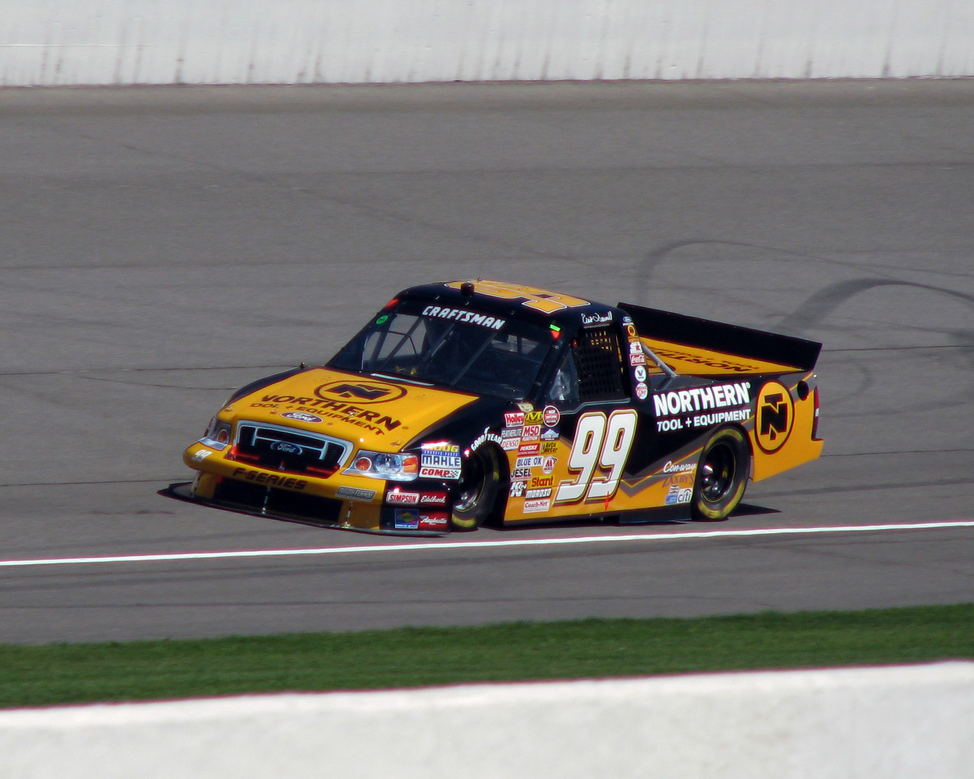 NASCAR Truck Series qualifying - June 14, 2008